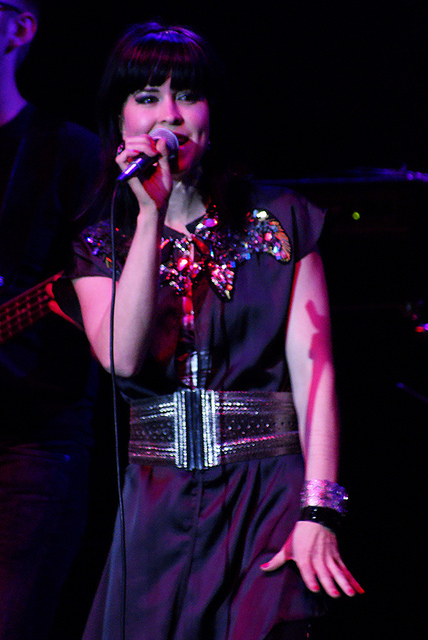 Leslie Hunt, District97 Rosfest Gettysberg 2011